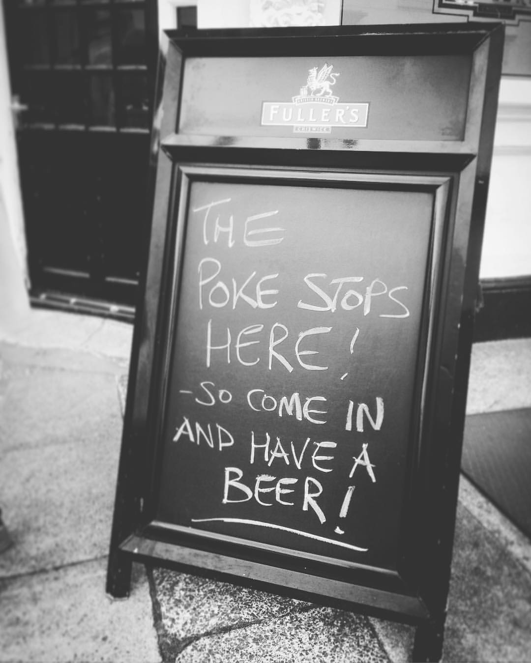 A Fuller's Brewery pub in Portsmouth, England, takes advantage of the widespread popularity of Pokémon Go.